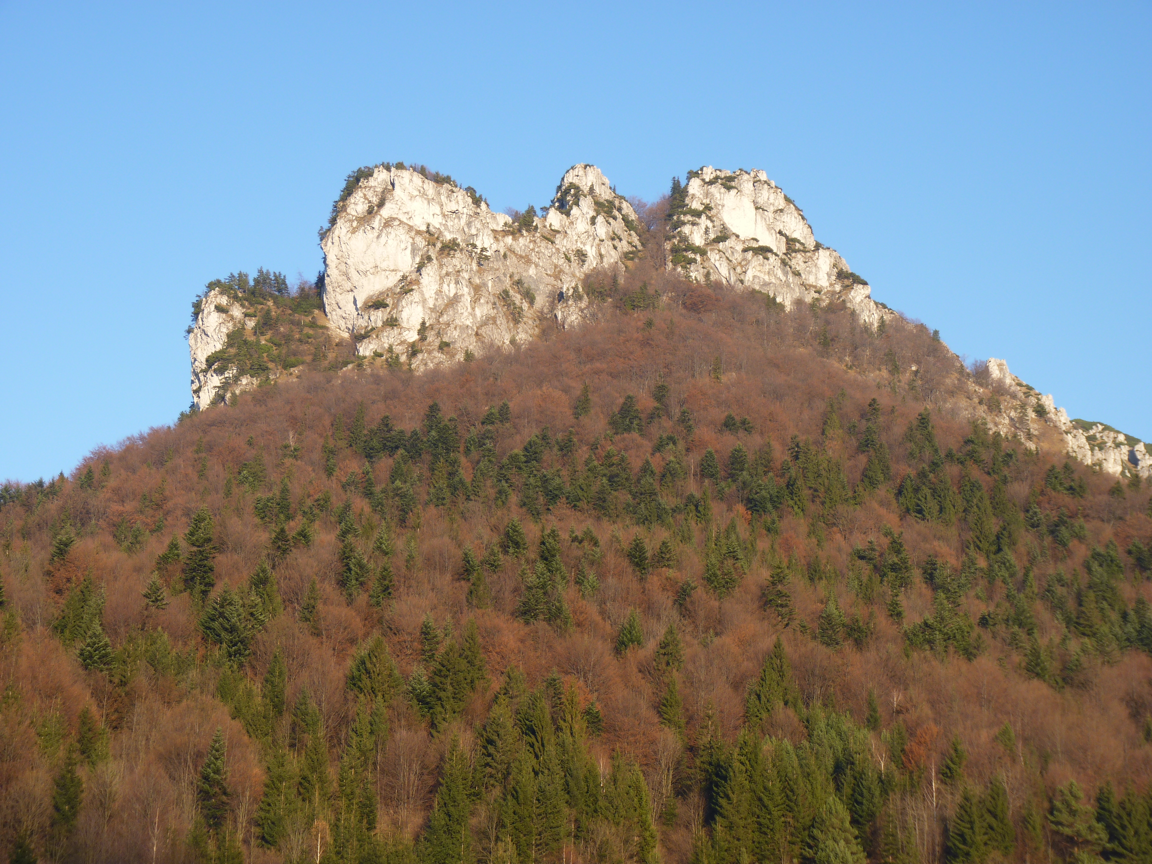 National Park Lesser Fatra, Slovakia